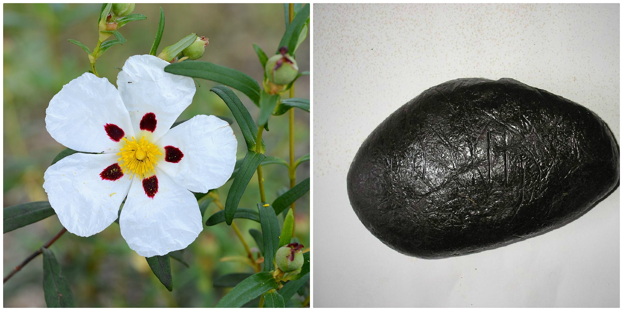 Onycha is mentioned in the Bible in Exodus 30. One interpretation of onycha is labdanum. Cistus plant (left) with petals said to resemble human fingernails and labdanum, the resin from the plant (right), said to resemble the black onyx stone. The resin is one contender for onycha.